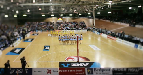 To enhance netball description and that of the Invercargill ILT Velodrome of 2011.